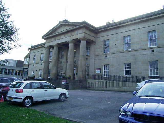 The Old Royal Infirmary Built in 1830 by Joseph Kaye who also built the Railway Station, the Infirmary lasted until 1966 when the then Polytechnic Authority took it over and the new Hospital at Lindley was opened.